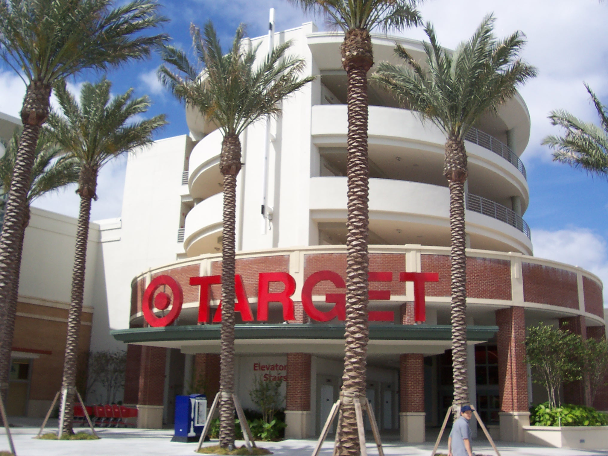 A new Target located in Miami